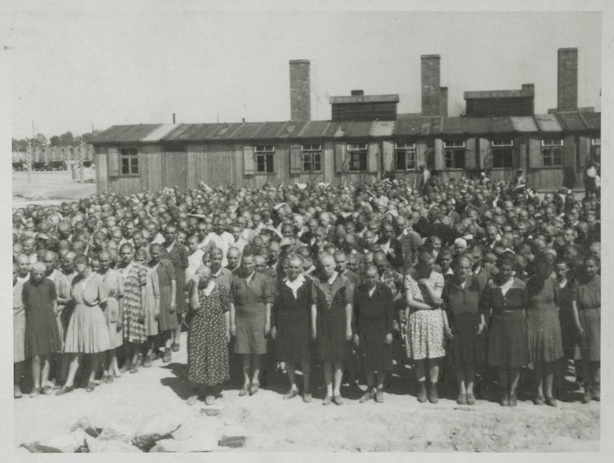 An image from the Auschwitz Album. Female prisoners in the Auschwitz concentration camp in German-occupied Poland. "Roll call in front of the kitchen building." — Yad Vashem. Lili Jacob, who found the album, stands fourth from the left (not counting the woman touching her head) at the front of the right-hand column. See Dickerman, Michael (2017). "The Auschwitz Album". In Paul R. Bartrop, Michael Dickerman (eds.). The Holocaust: An Encyclopedia and Document Collection. Volume 1. ABC-CLIO. p. 52 (51–52).